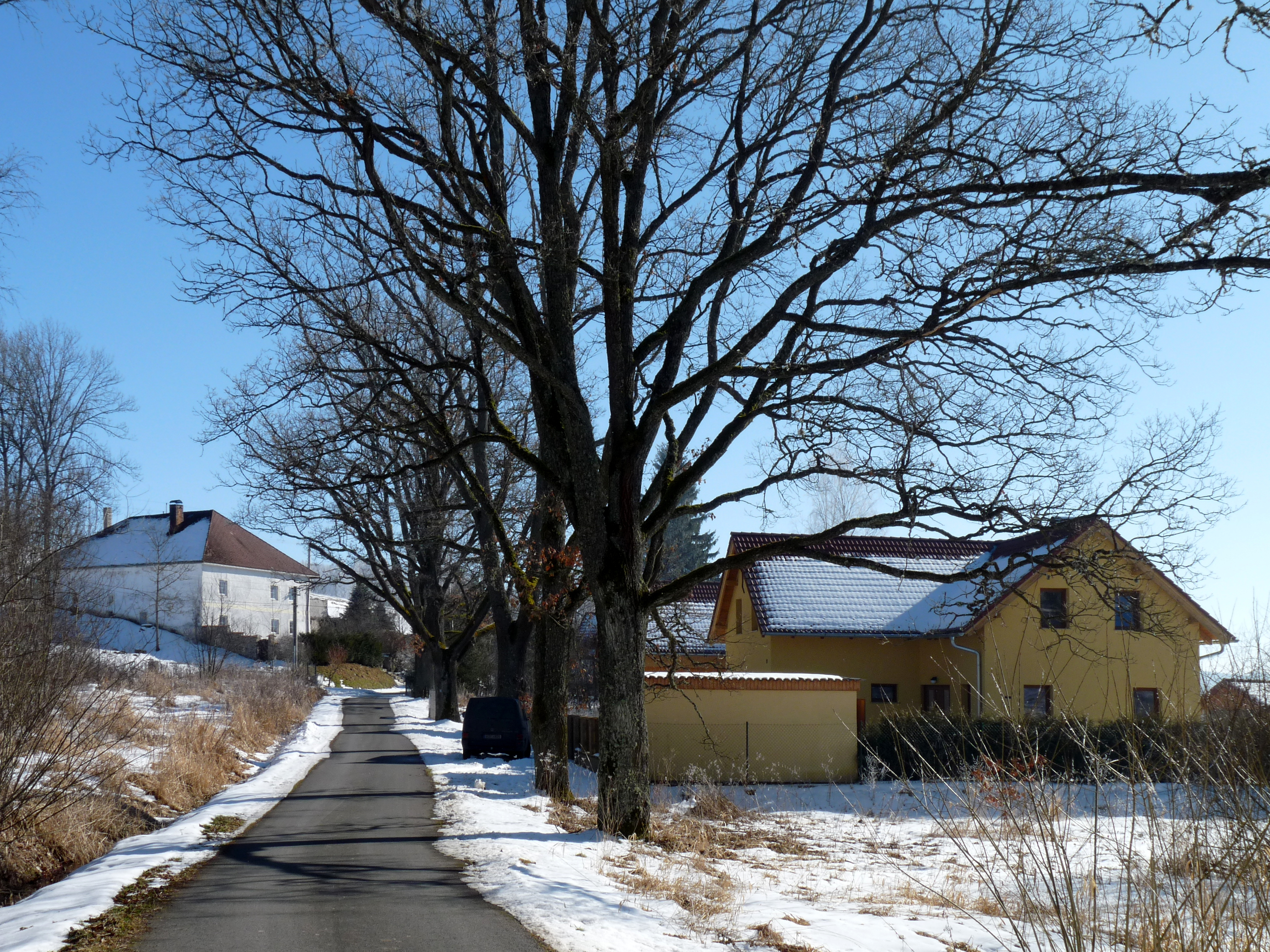 House No 5 in the village of Bělá, part of the municipality of Nová Pec, Prachatice District, South Bohemian Region, Czech Republic.